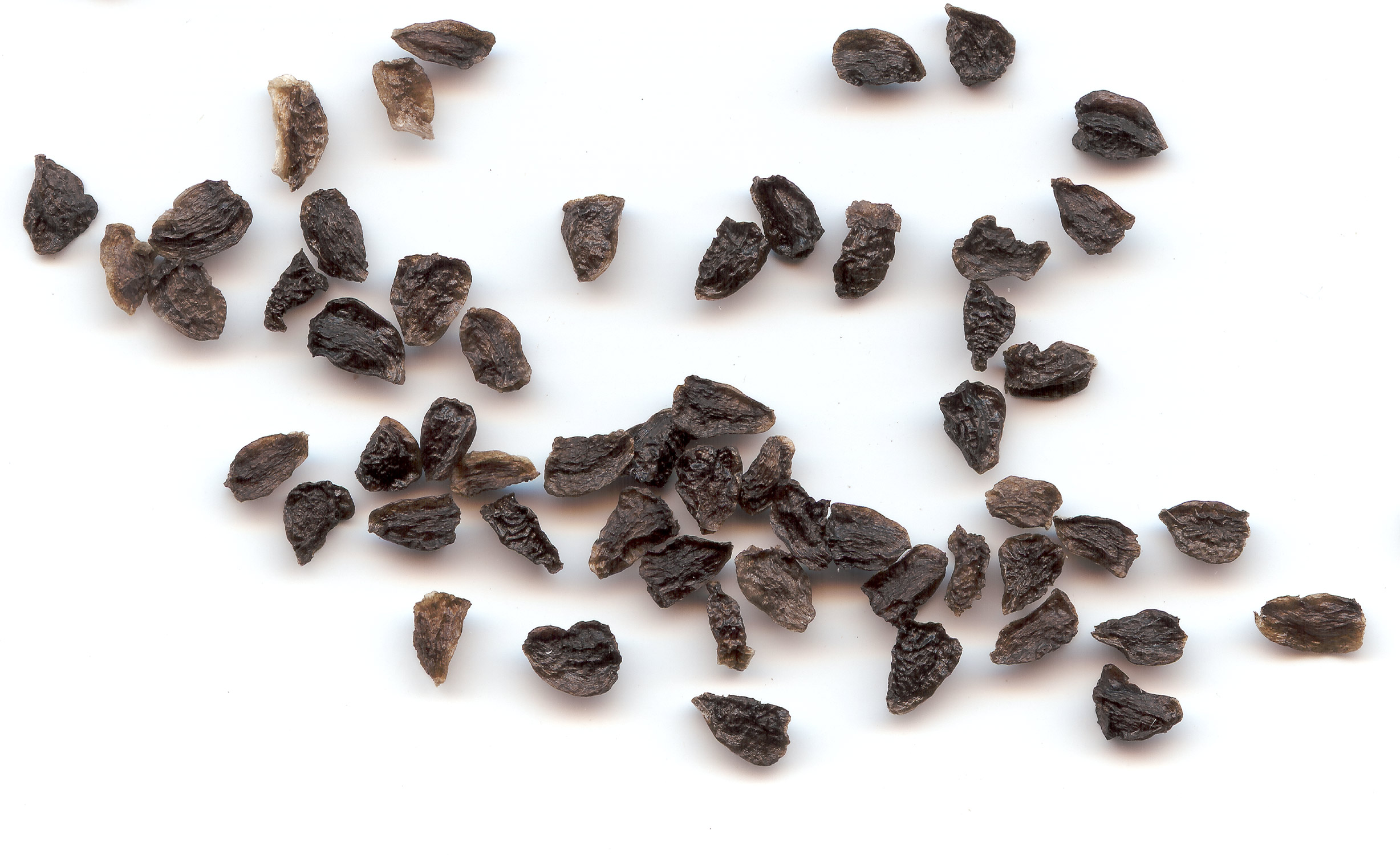 Self made scan of the seeds of Aconitum nepellus, made 01/2008.